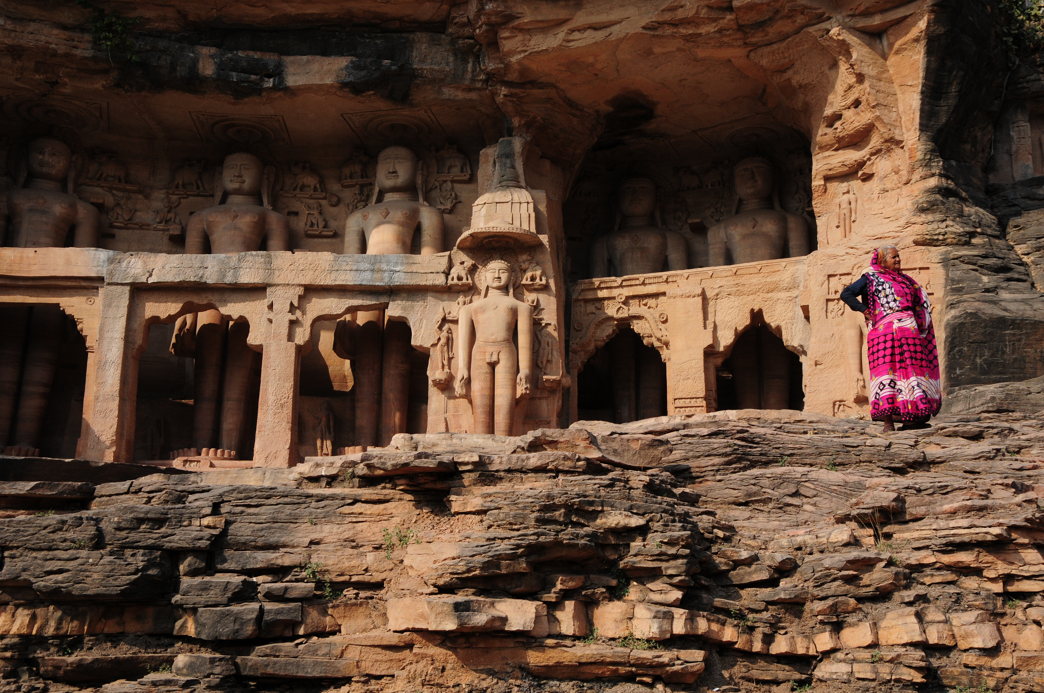 Rockcut Statues of Jain Thirthankaras in rock niches on the southern side of the fort walls seen on drive up to the fort.